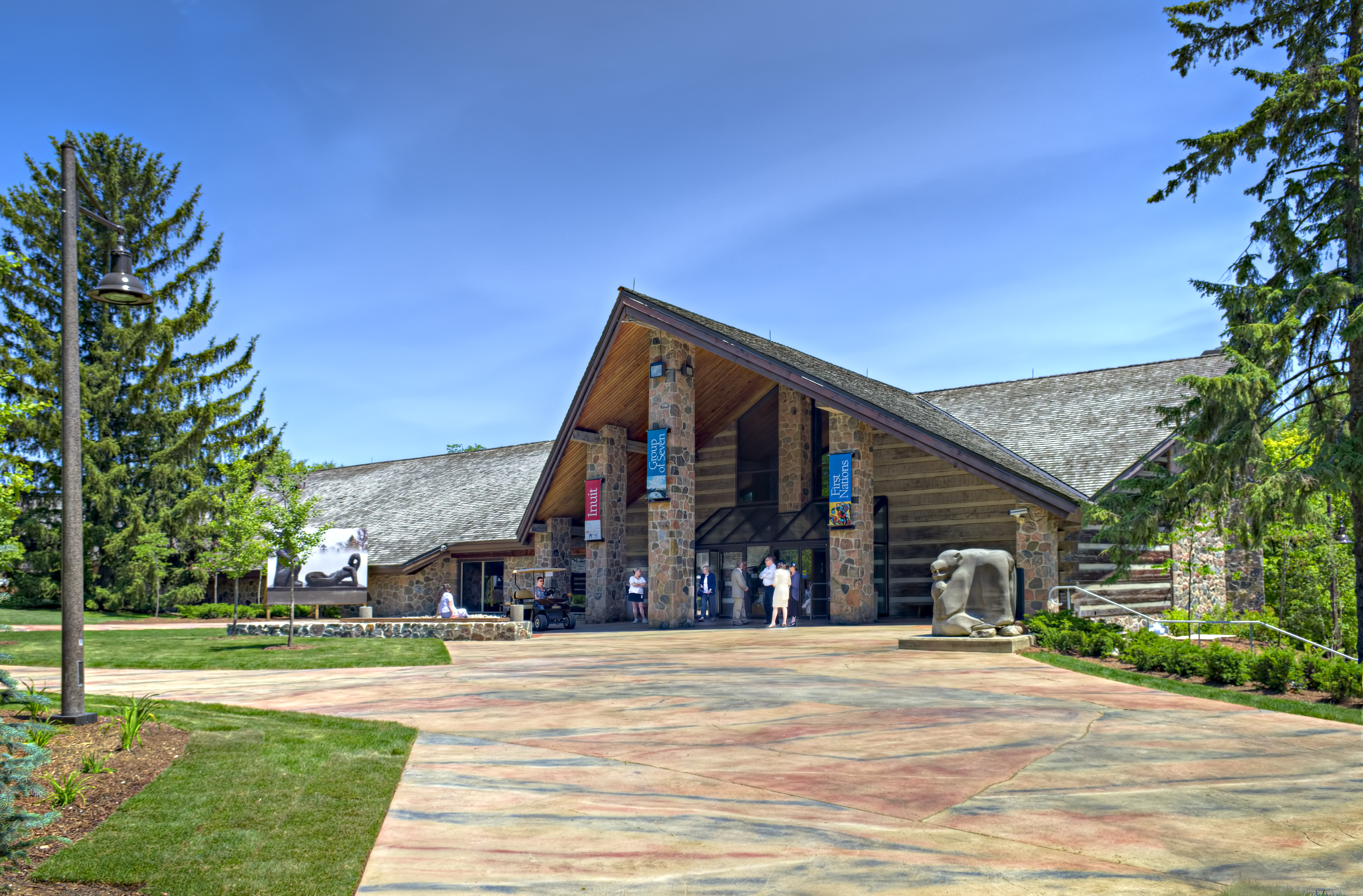 Gallery_New-Entrance_Credit-Art2Print-Images